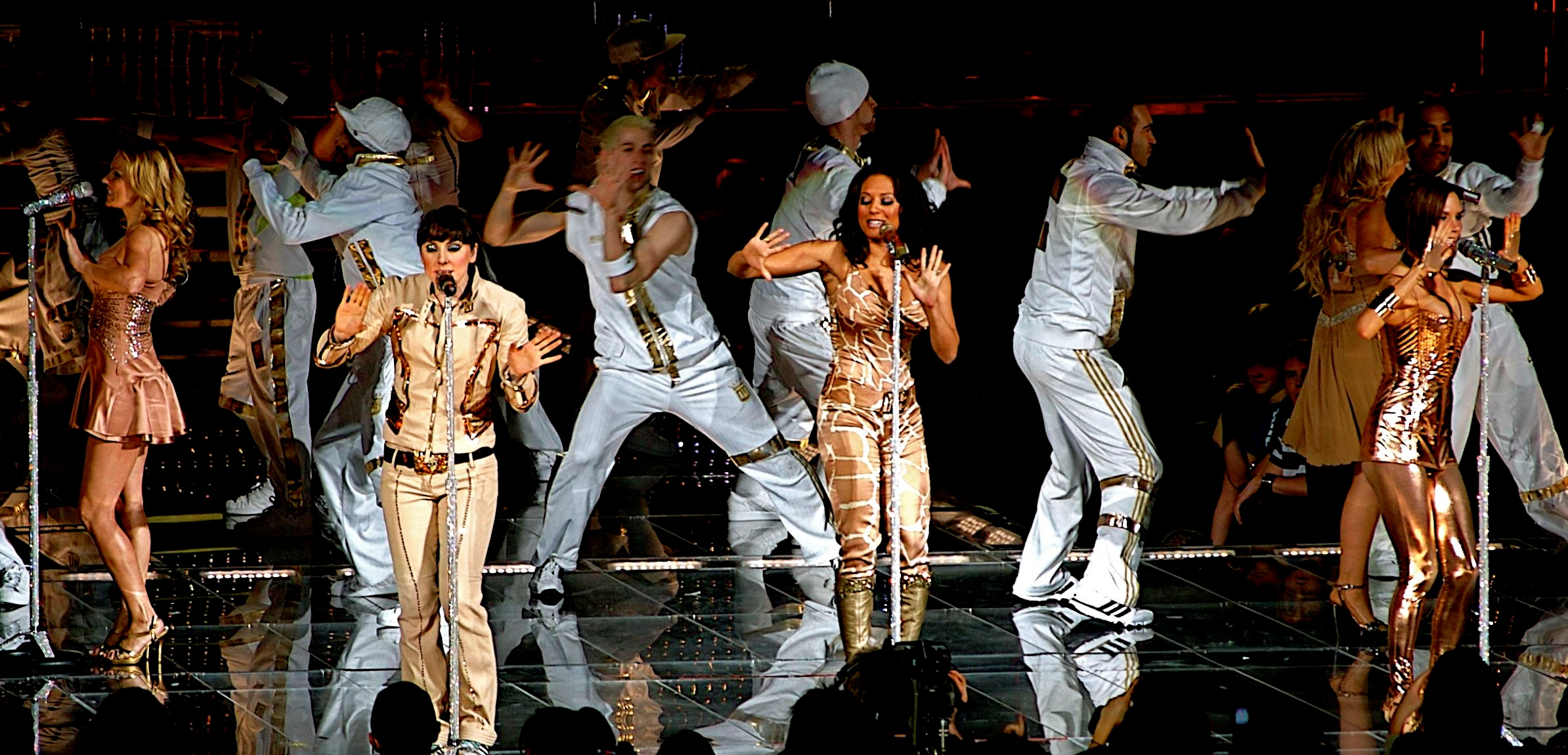 Spice Girls in Toronto Air Canada Center.